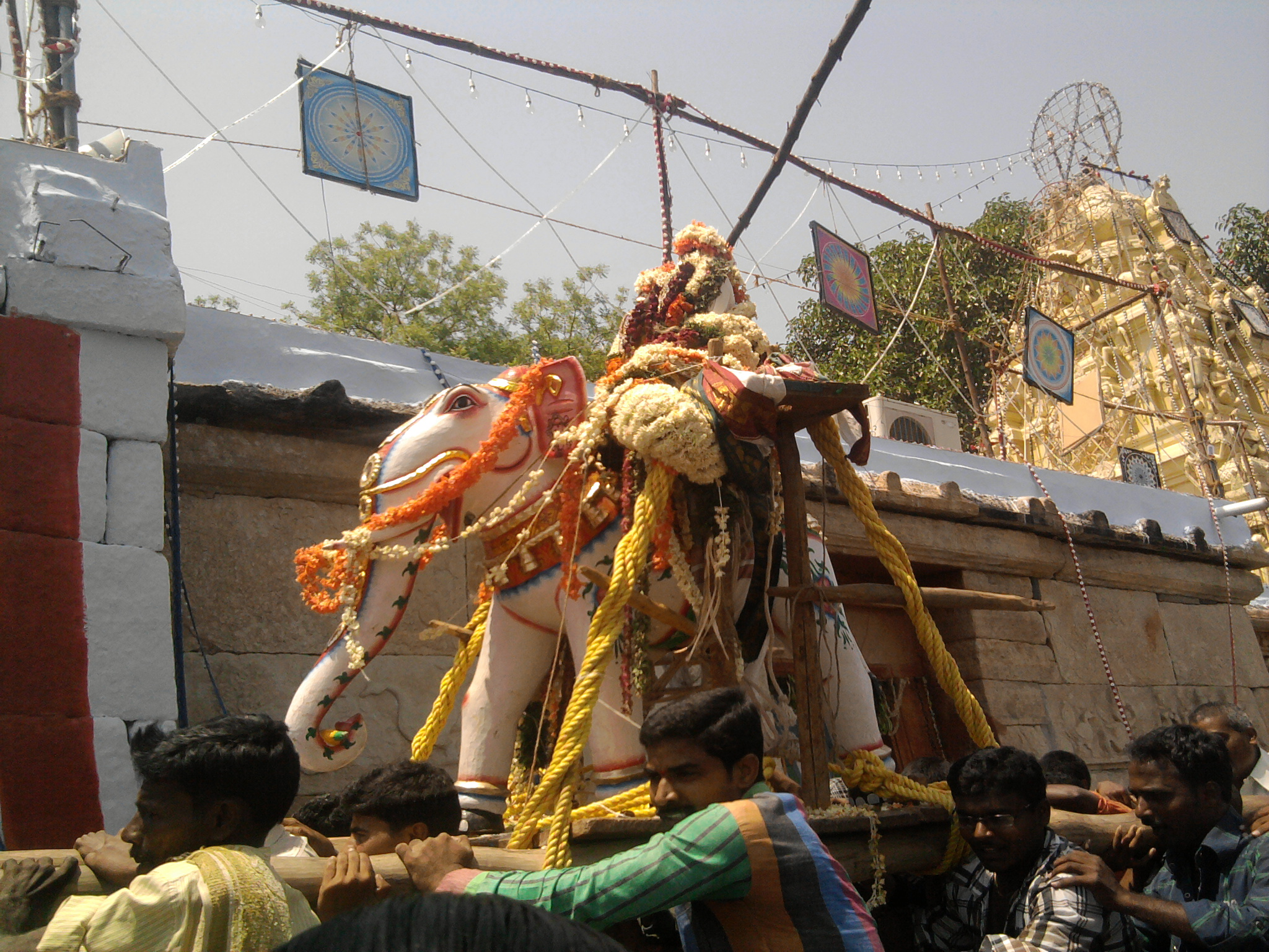 Alakalathopu Utsav Goddess Lakshmi Devi on Gaja Vahana at Nallagondla village, Vinjamoor mandal, Nellore District, A.P.